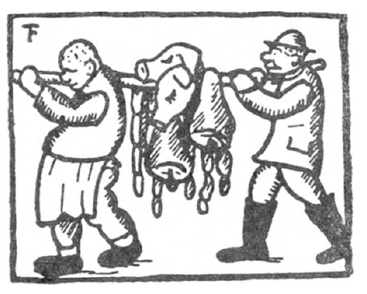 Illustration Pieter Breughel zoo heb ik u uit uwe werken geroken